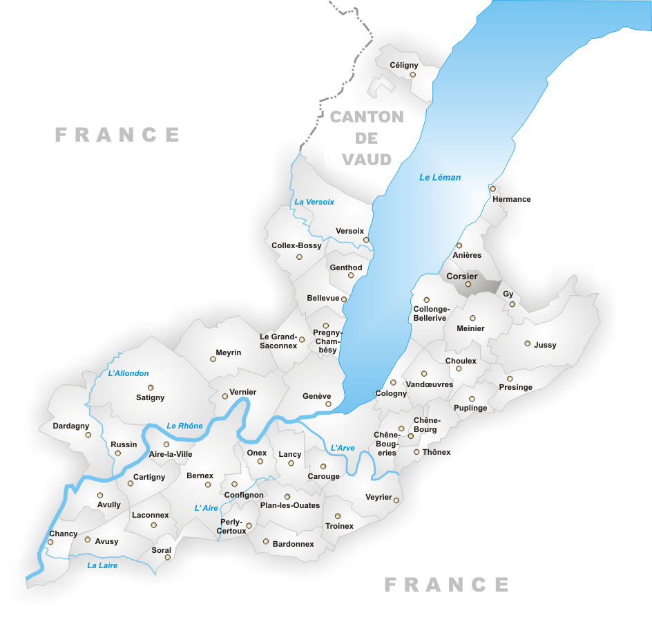 Copy of Image Carte_Commune_Corsier.png, with a correct naming